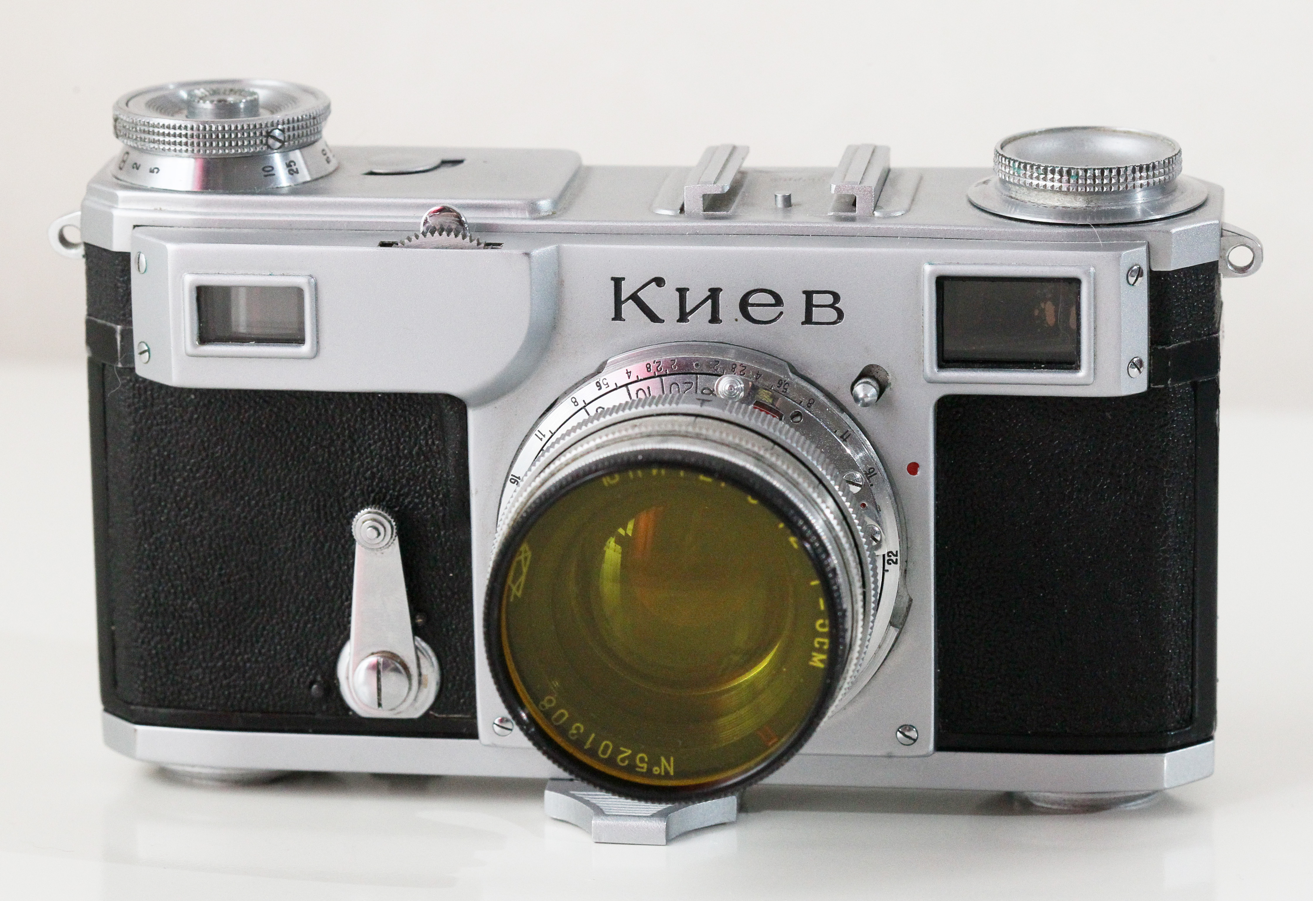 'Kiev II', a soviet copy of 'Contax II' rangefinder 35-mm still camera. Prodused at Ukraine 'Arsenal' plant in 1952. 'Jupiter-8' 50/2,0 lens ('Sonnar' copy) prodused at Krasnogorsk same year.